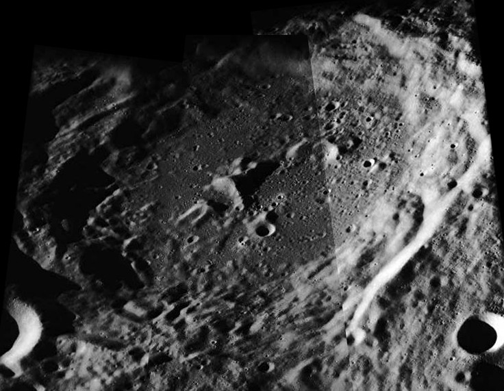 Oblique view of Spencer Jones crater, on the far side of the moon, with north at top.